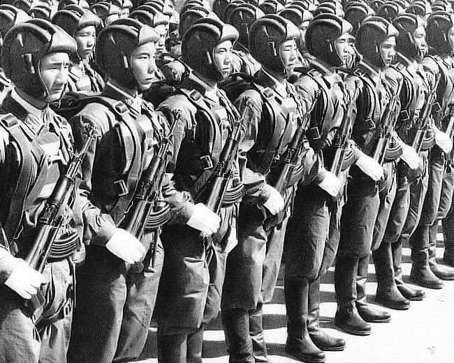 China 10th Anniversary Parade in Beijing